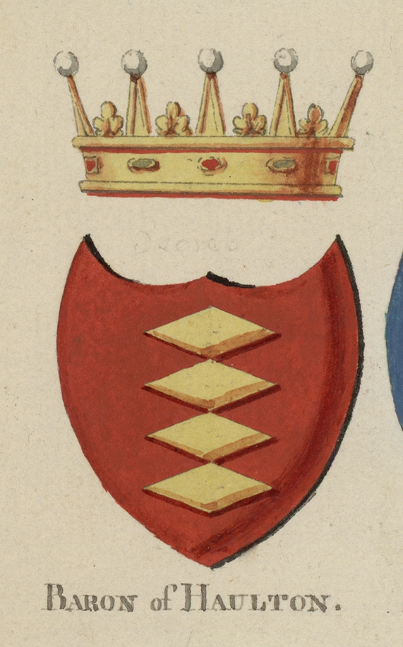 An image from a set of 8 extra-illustrated volumes of A tour in Wales by Thomas Pennant (1726-1798) that chronicle the three journeys he made through Wales between 1773 and 1776. These volumes are unique because they were compiled for Pennant's own library at Downing. This edition was produced in 1781. The volumes include a number of original drawings by Moses Griffiths, Ingleby and other well known artists of the period. Thomas Pennant (1726-1798)